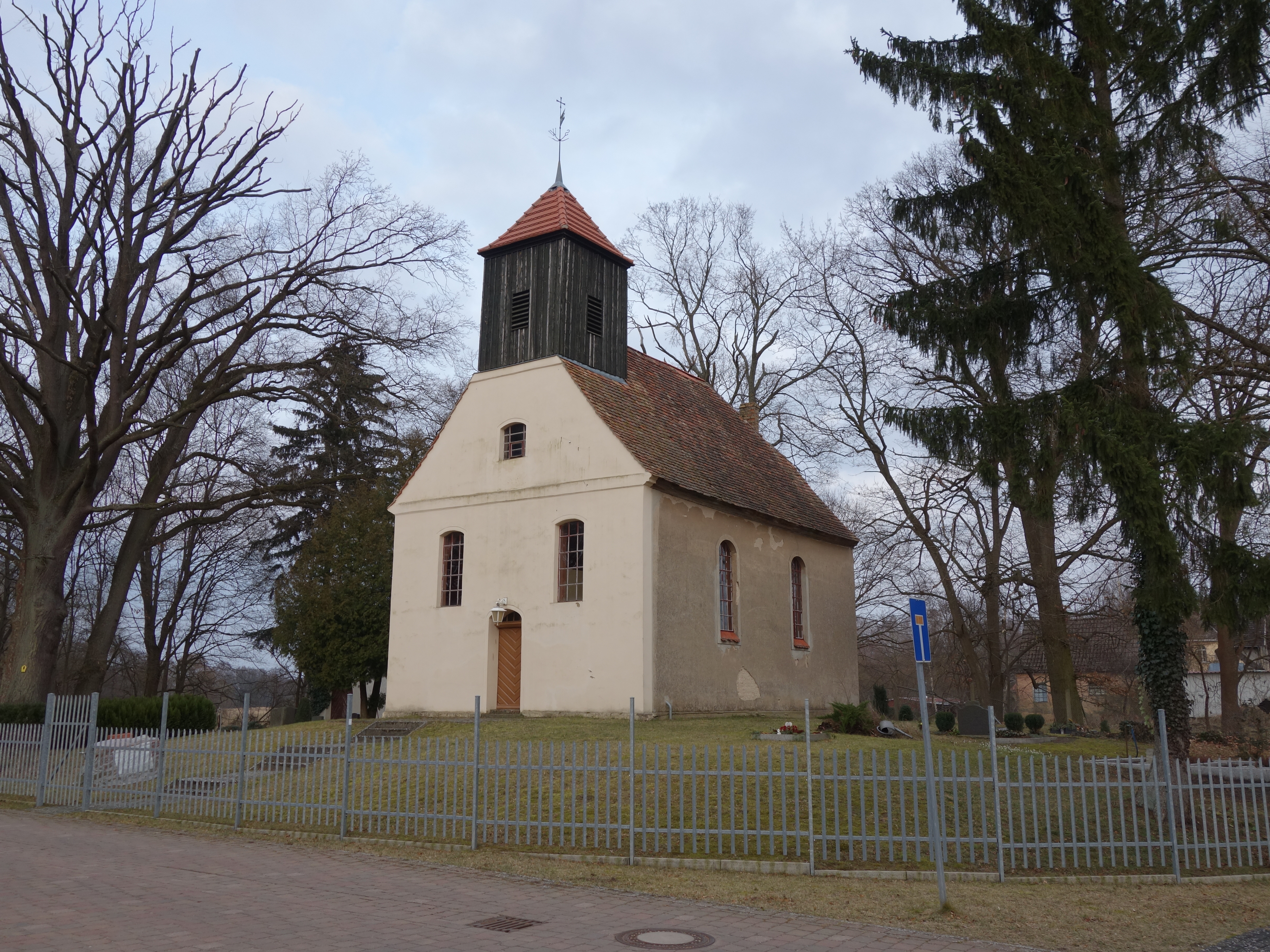 South-western view of Großzerlang church, Rheinsberg municipality, Ostprignitz-Ruppin district, Brandenburg state, Germany